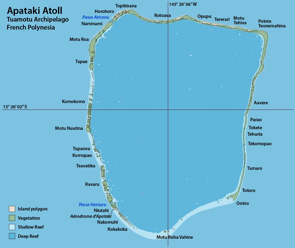 Map of Apataki Atoll, Tuamotu Archipelago, French Polynesia